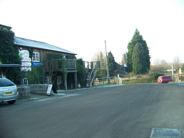 Apple Craft Centre, Selling Road, Faversham, Kent